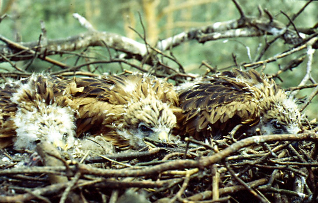 Red Kite (Milvus milvus), three nestlings in the nest, age of oldest 32 days, all showing akinetic behaviour. Taken by user Accipiter (R. Altenkamp), 13.6.1998, Berlin, Germany